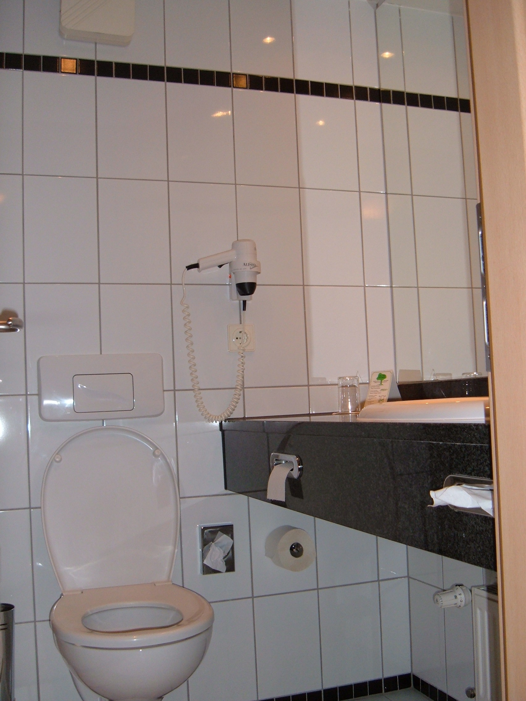 The bathroom of a double room at the Park Plaza Prenzlauer Berg in Berlin, Germany.